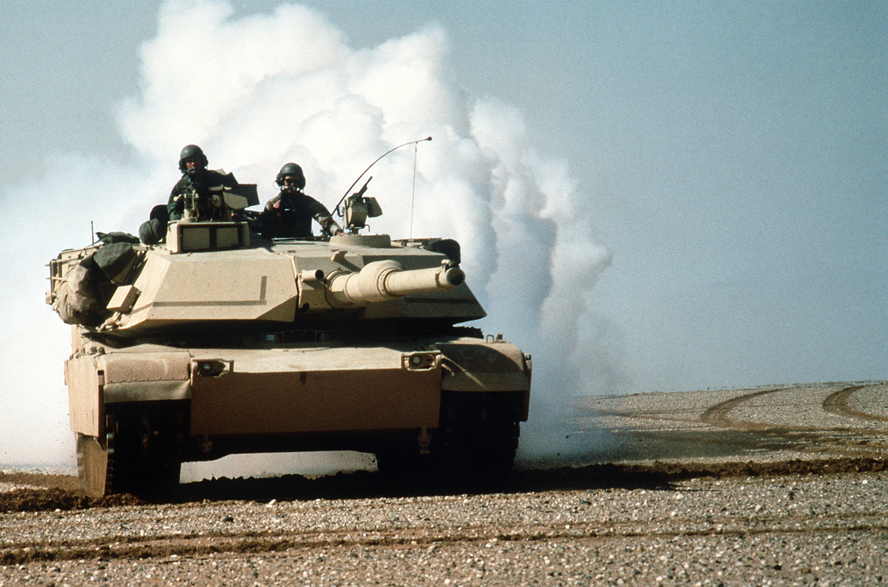 Abrahms tank in desert, front end view.